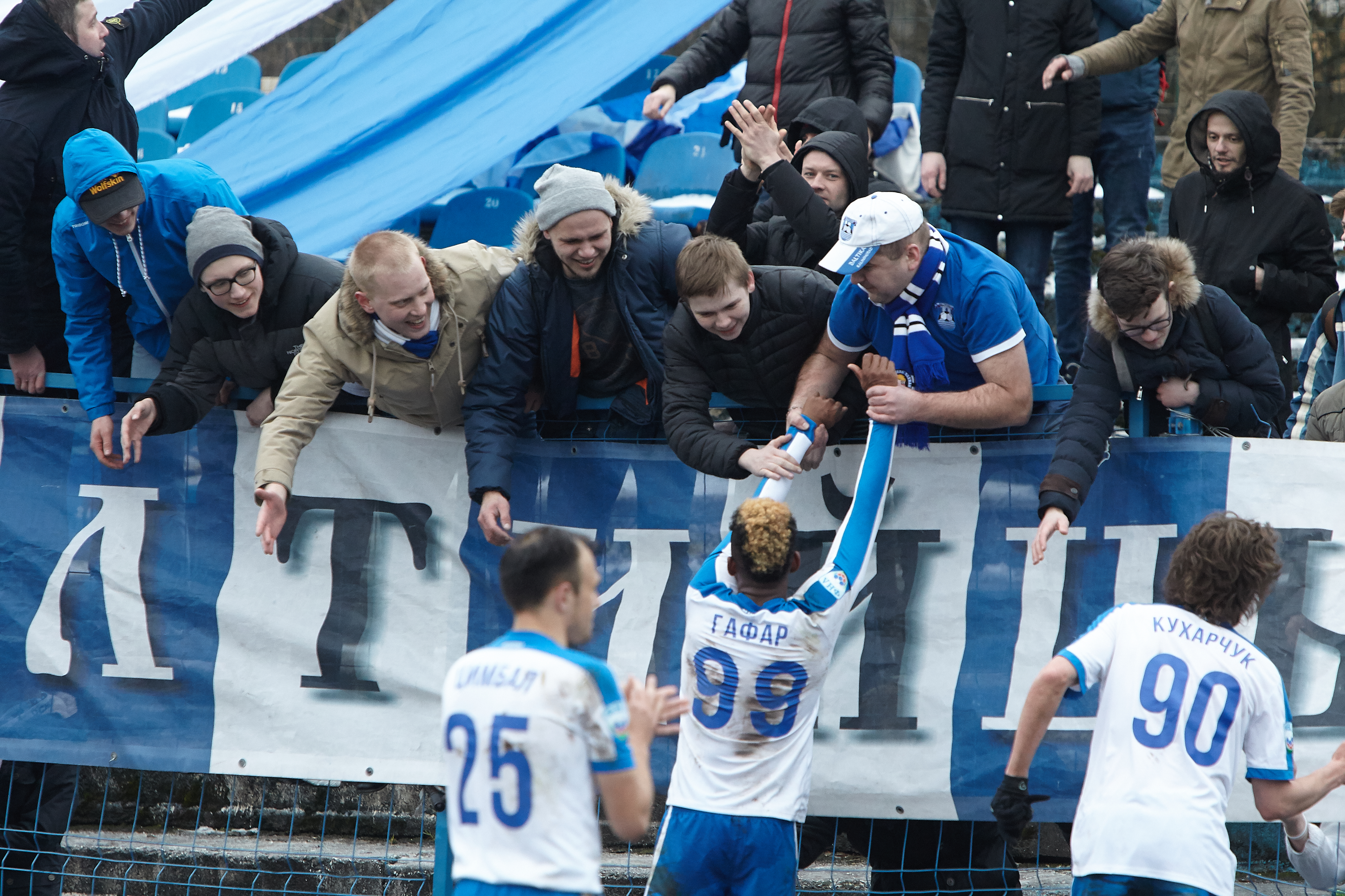 FC Baltika - FC Volgar (2017-03-08)